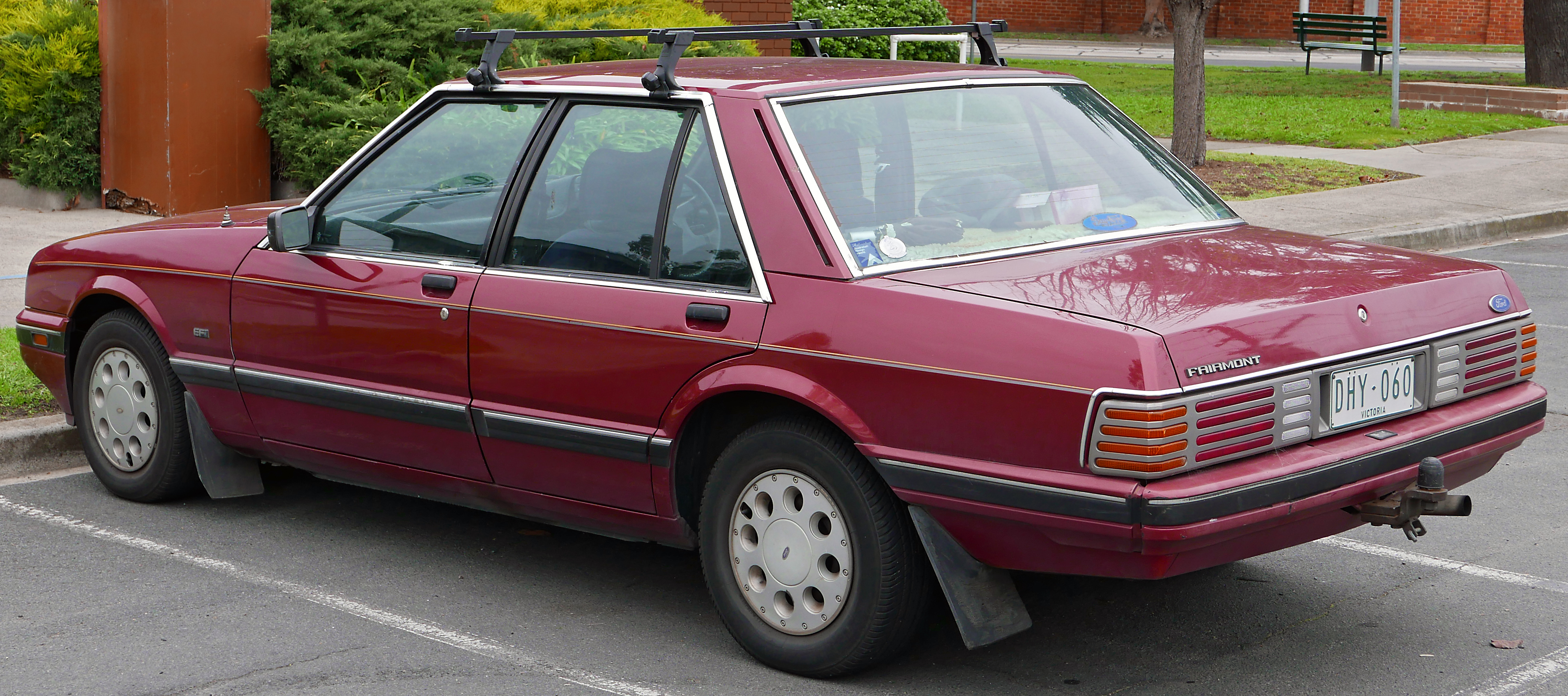 1988 Ford Fairmont (XF) sedan. Photographed in Kew, Victoria, Australia. Vehicle registration enquiry results Jurisdiction Victoria Registration DHY060 Chassis code Not available Engine code JG34HM81018C Compliance date Not available Year of manufacture 1988